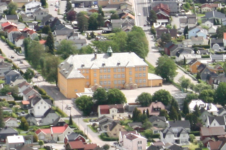 Aerial photograph from June 14th, 2015. Part of city of Lillestrøm (Norway) with river Nitelva in the foreground.)